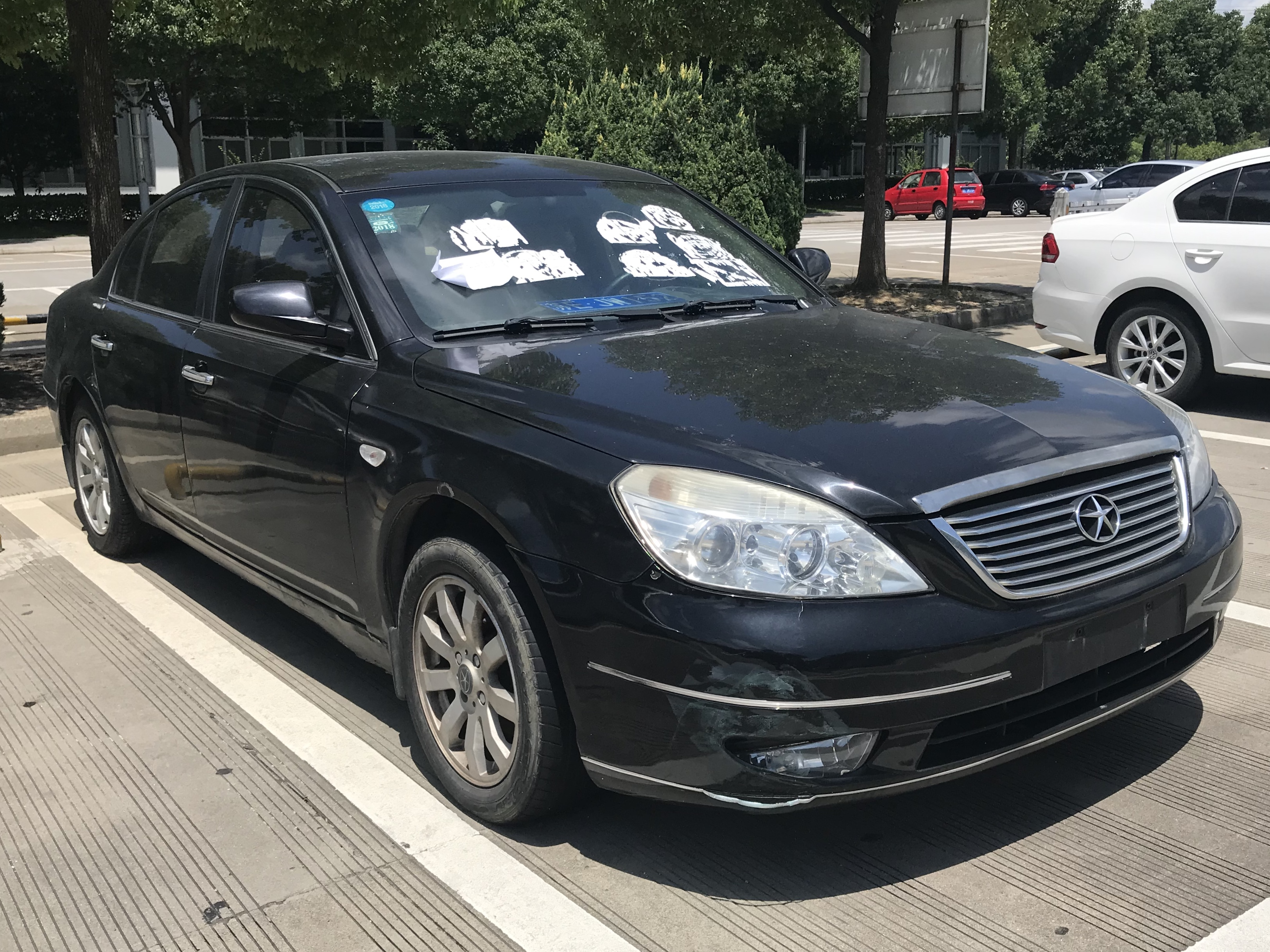 JAC Binyue/ Binjoy C200 (JAC J7) sedan in Suzhou